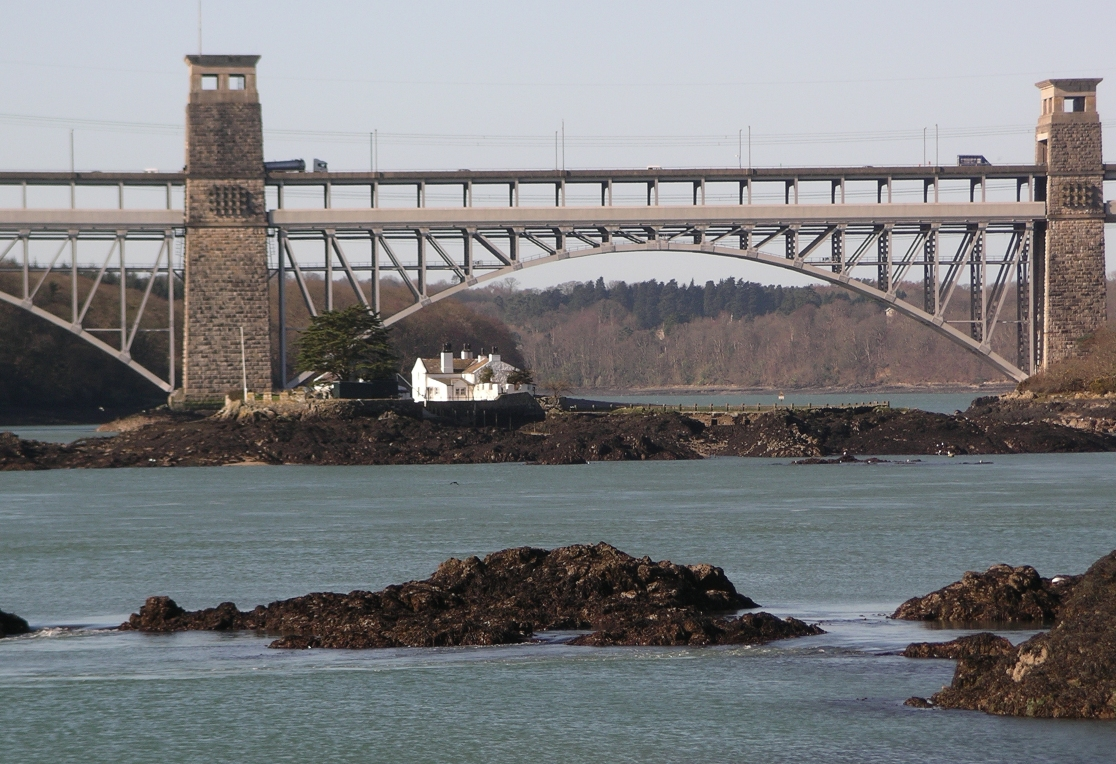 Ynys Gored Goch @ low tide with Britannia Bridge behind